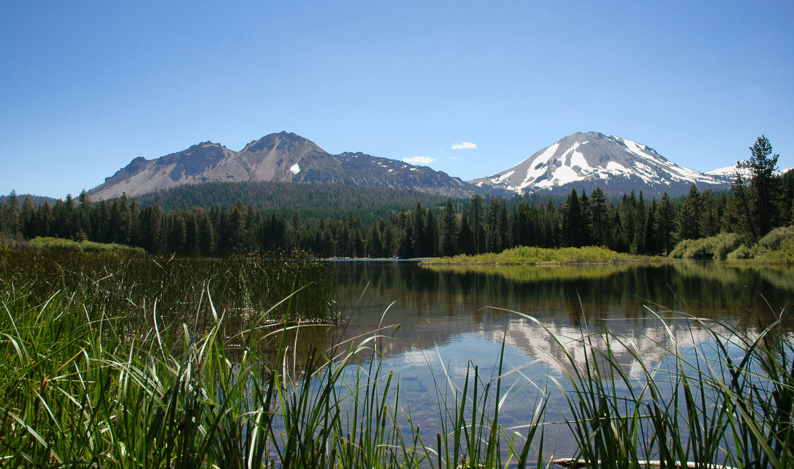 View of the Chaos Crags and Lassen Peak from the side of Manzanita Lake, Lassen Volcanic National Park, California